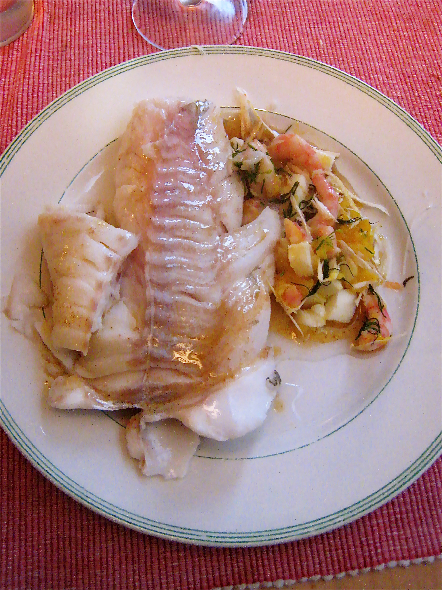 Cod (Gadus morhua) from Öresund served with butter, shrimp, dill and eggs and freash horseradish. The fish was caught by small-scale, environmentally-friendly fishing.